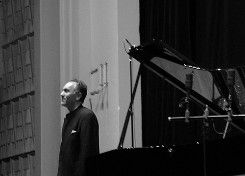 The Lebanese pianist Abdel Rahman el Bacha at his presentation at St Victor-Mutualité theatrem Paris